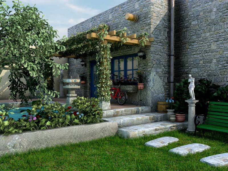 Original idea by slipknot66 (Giorgio Adolfo Krenkel)! Modeling, texturing and rendering by Alex Sandri! Maya7 Nurbs and Poly Modeling, Mental Ray Area Lights, Image Based Lighting, GI and Secondary Bounces Final Gather! Ambient Occlusion & Paint effects! Modeling, texturing and rendering by Alex Sandri. Keywords: 3d, Autodesk, Maya, Cg, Digital, Art, Architecture, Visualization